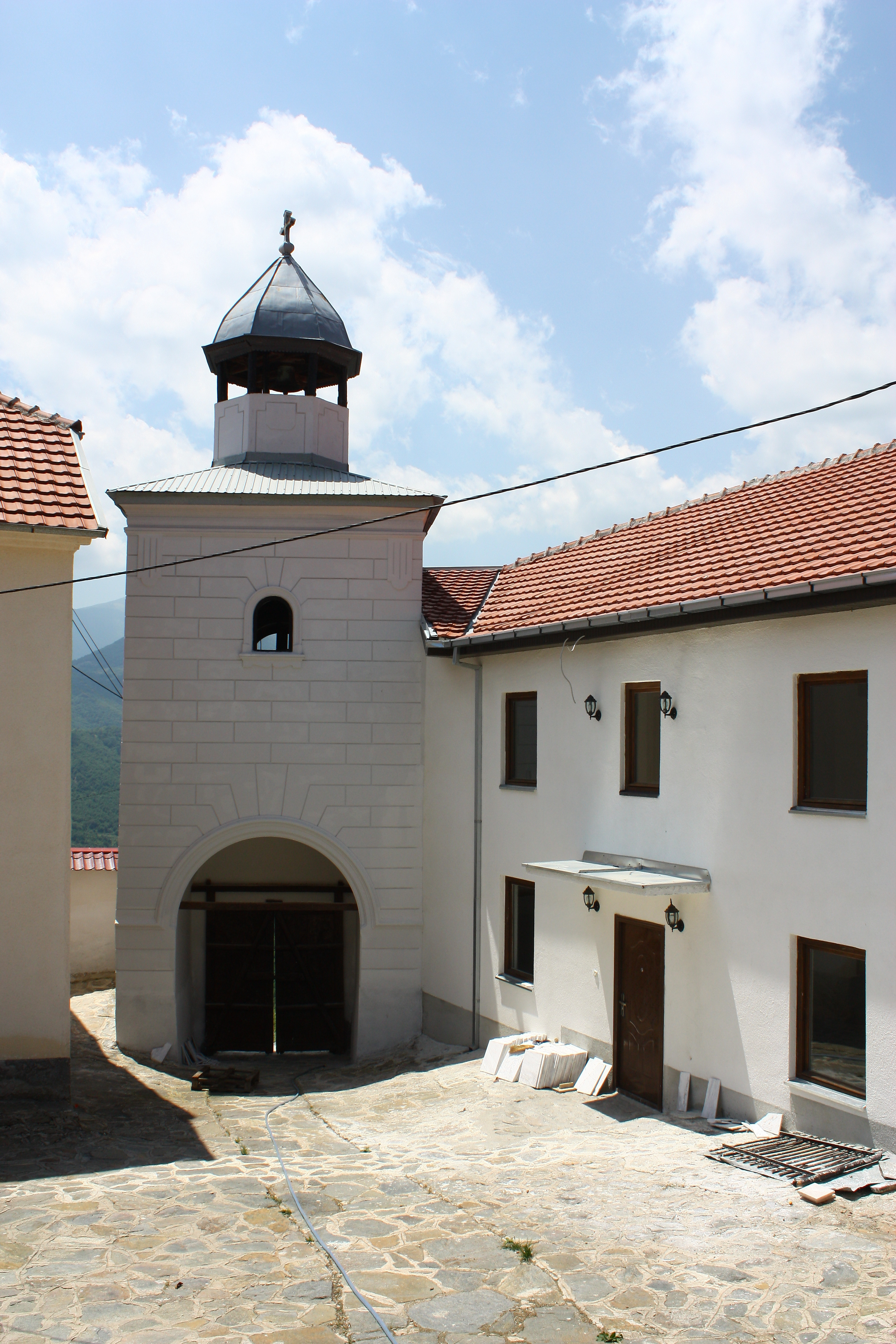 Poreče Monastery in village of Gorni Manastirec near Makedonski Brod, Macedonia